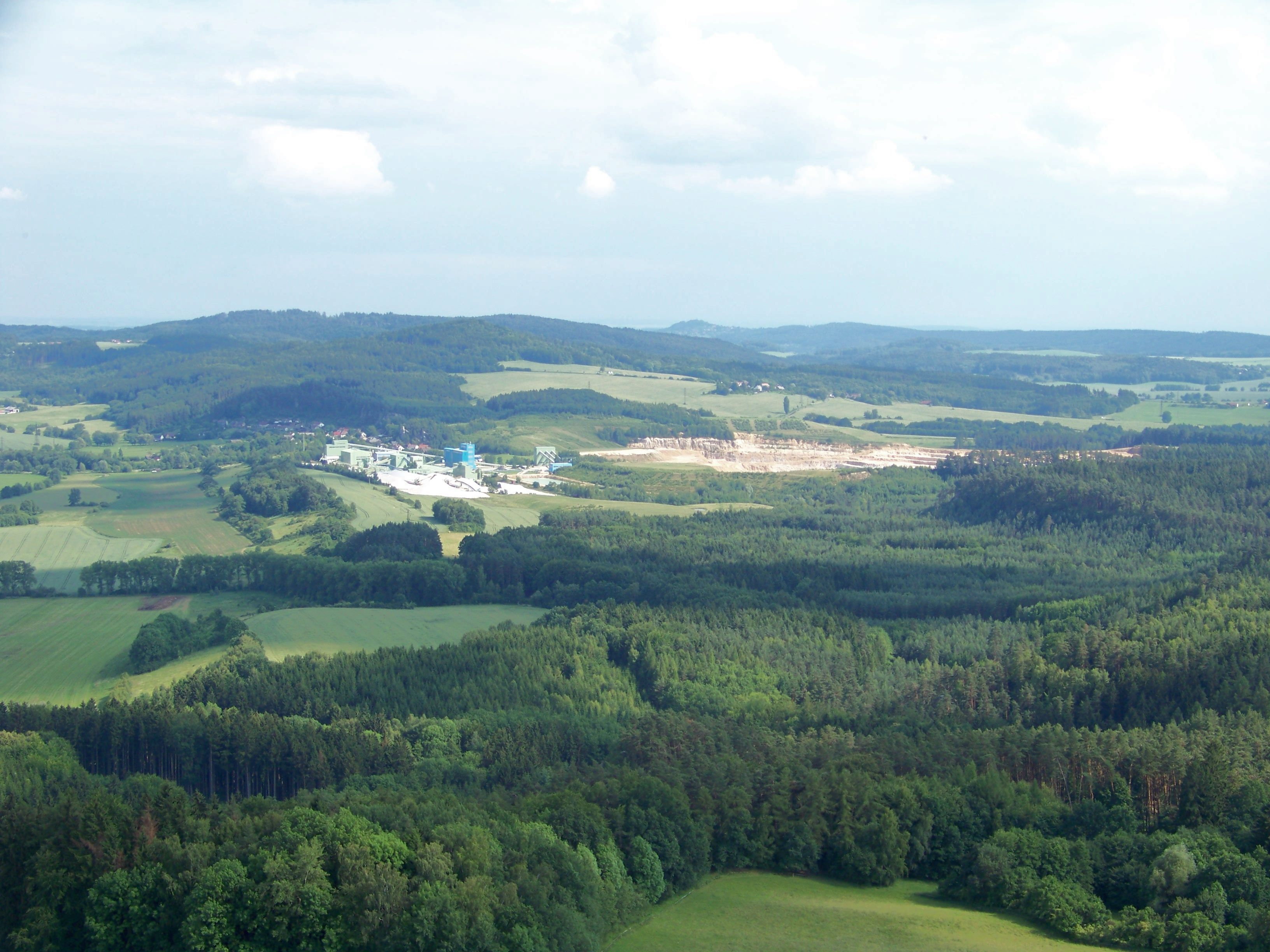 Troskovice, Liberec Region, the Czech Republic. Views from Trosky Castle to the South-Ost to Hrdoňovice sand mine, Hradec Králové Region.